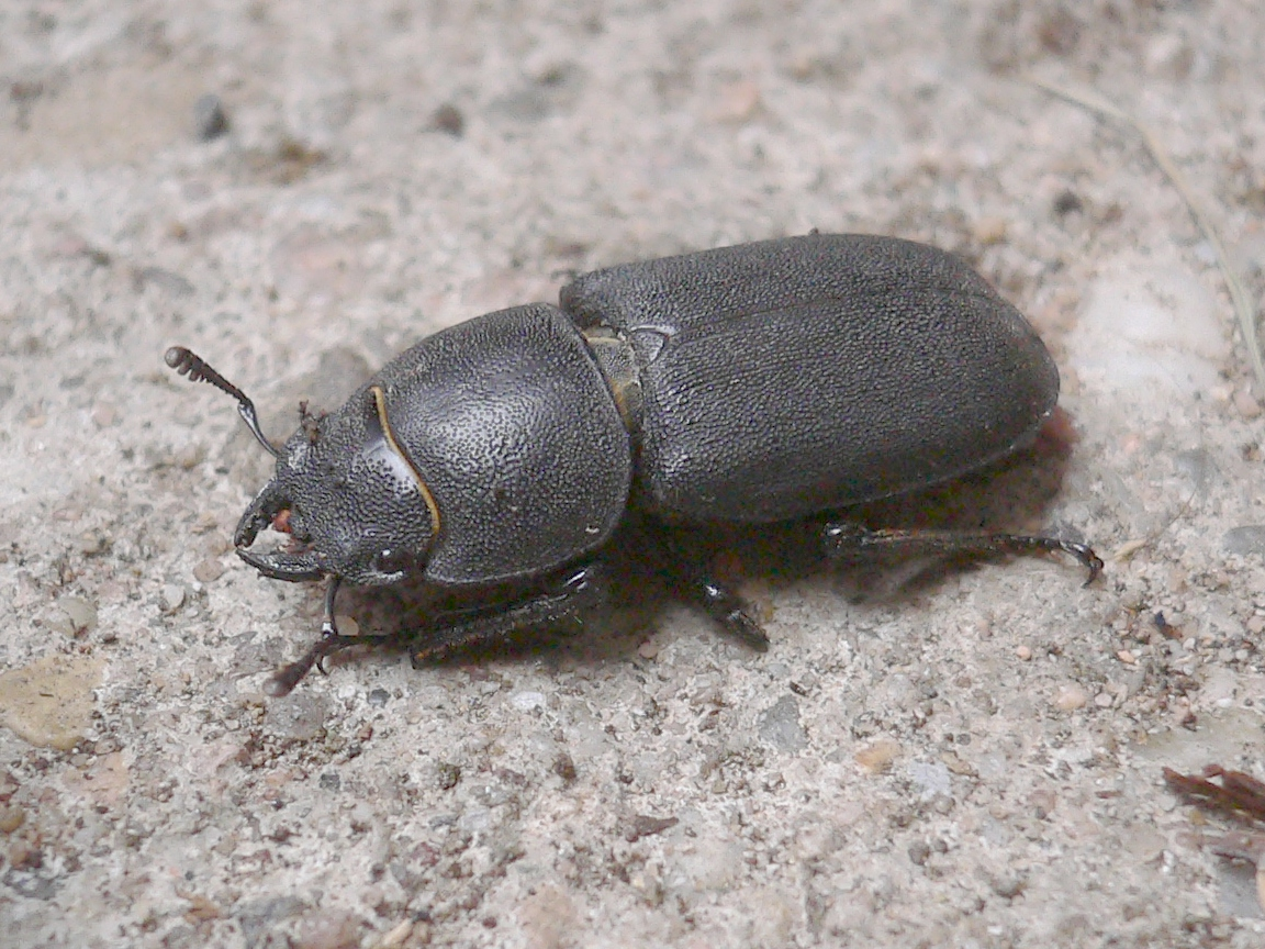 (Dorcus parallelipipedus), female - Haßloch (Pfalz), Germany